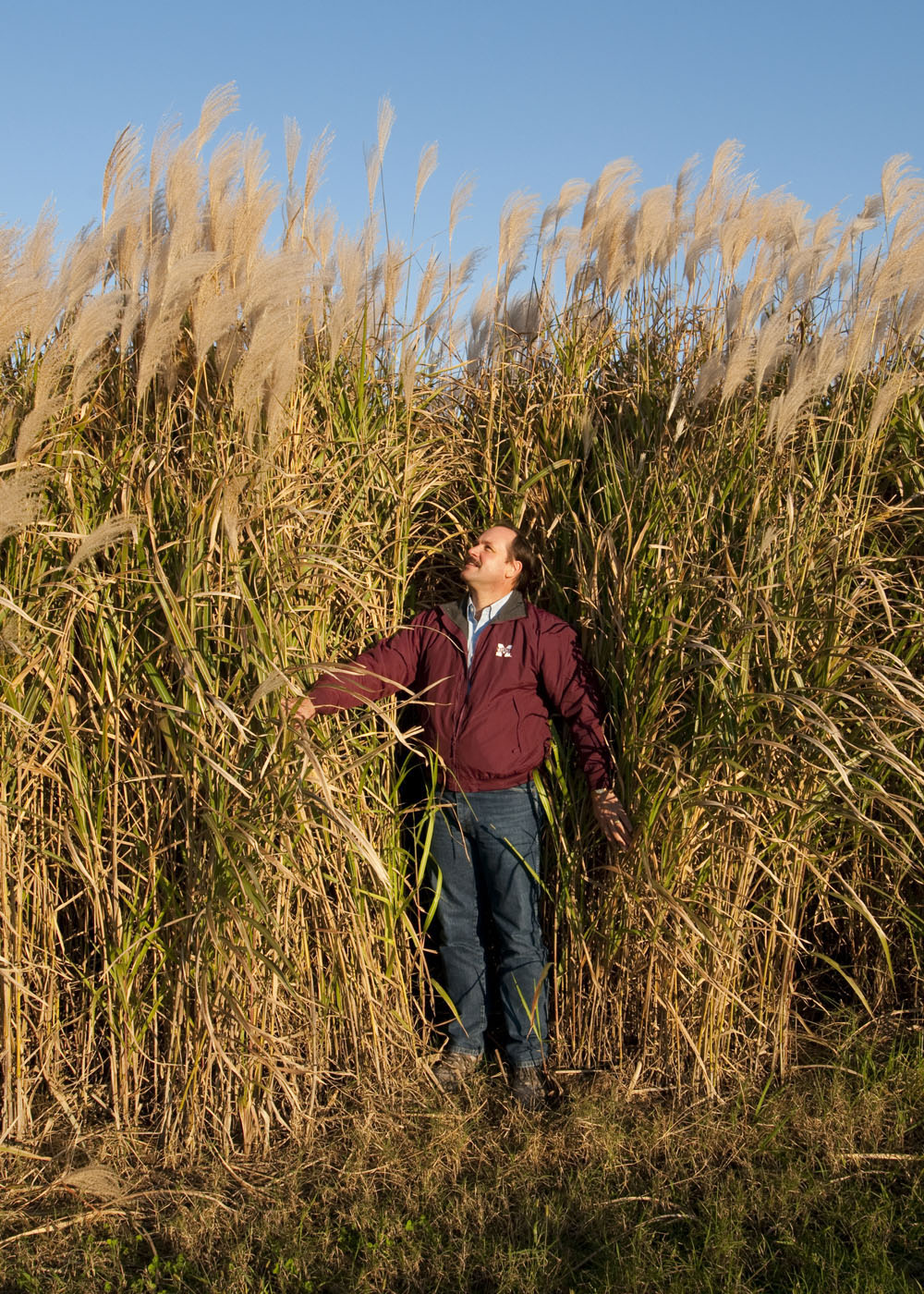 Miscanthus x giganteus variety "Freedom." Two-year old stand. Dr. Brian Baldwin of Mississippi State University developed the variety and is pictured.